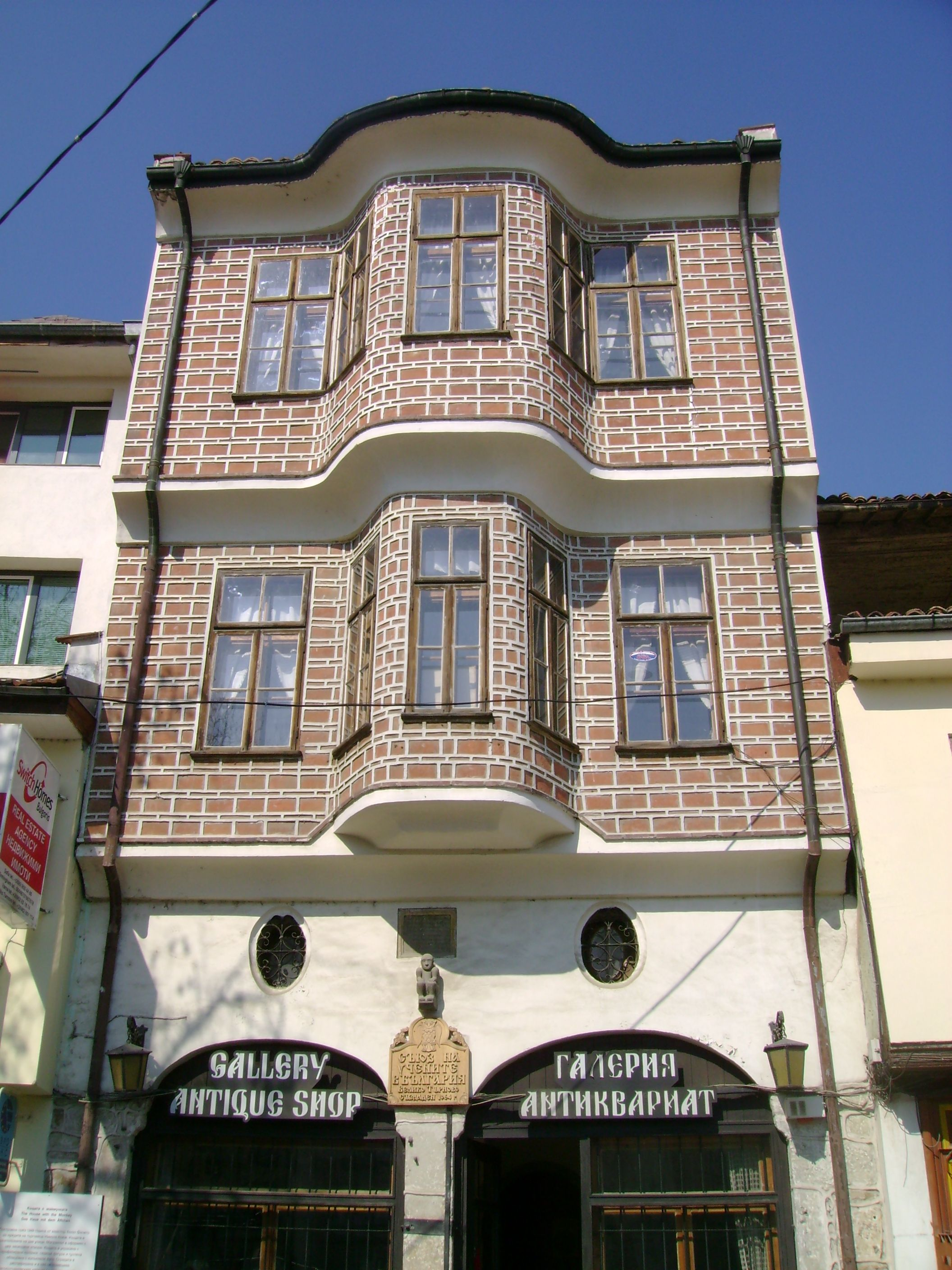 The house with the monkey in Veliko Tarnovo, Bulgaria